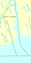 Of the 10.76 square miles of New London, Connecticut, 5.23 square miles (49%) is water. Derived from 2000 Census data and U.S. Census Bureau mapping utility.